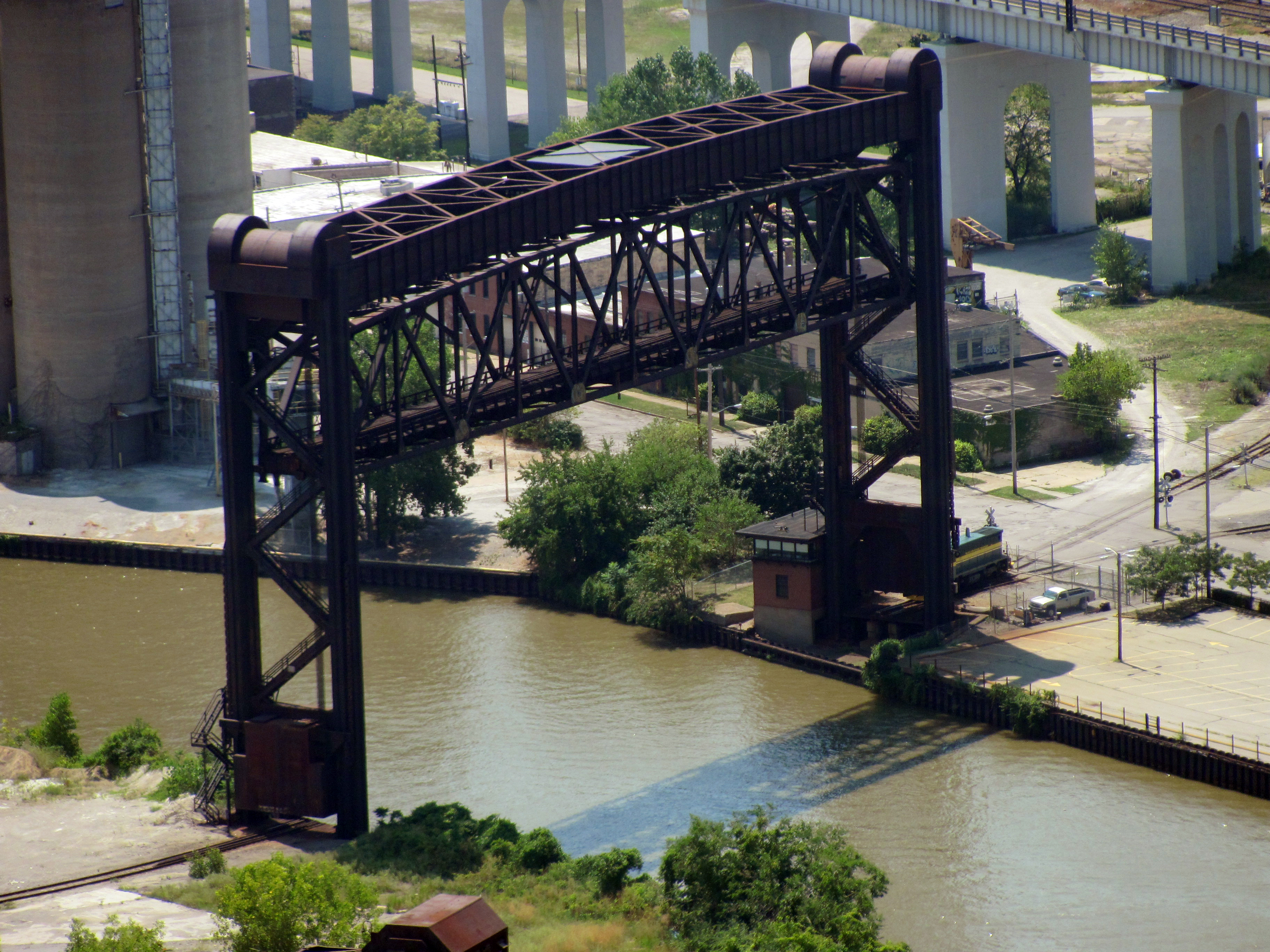 The Flats Industrial Railroad lift bridge over the Cuyahoga river, as seen from the Terminal Tower observation deck.